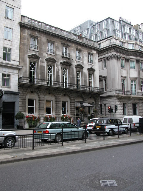 Former London home of the Earls of Coventry. At present 106 Piccadilly is an international language centre, it used to be the London home of the Earls of Coventry. It is situated next to the Park Lane Hotel opposite Green Park. The country seat of the Earls of Coventry was Croome Court in Worcestershire, it was sold in the 1940s and after being a school for many years the house is now in private ownership. The parkland the house is set in is in the care of the National Trust. The park is of importance as it was the first park to be landscaped by Capability Brown in the mid 18th century. See: 42447